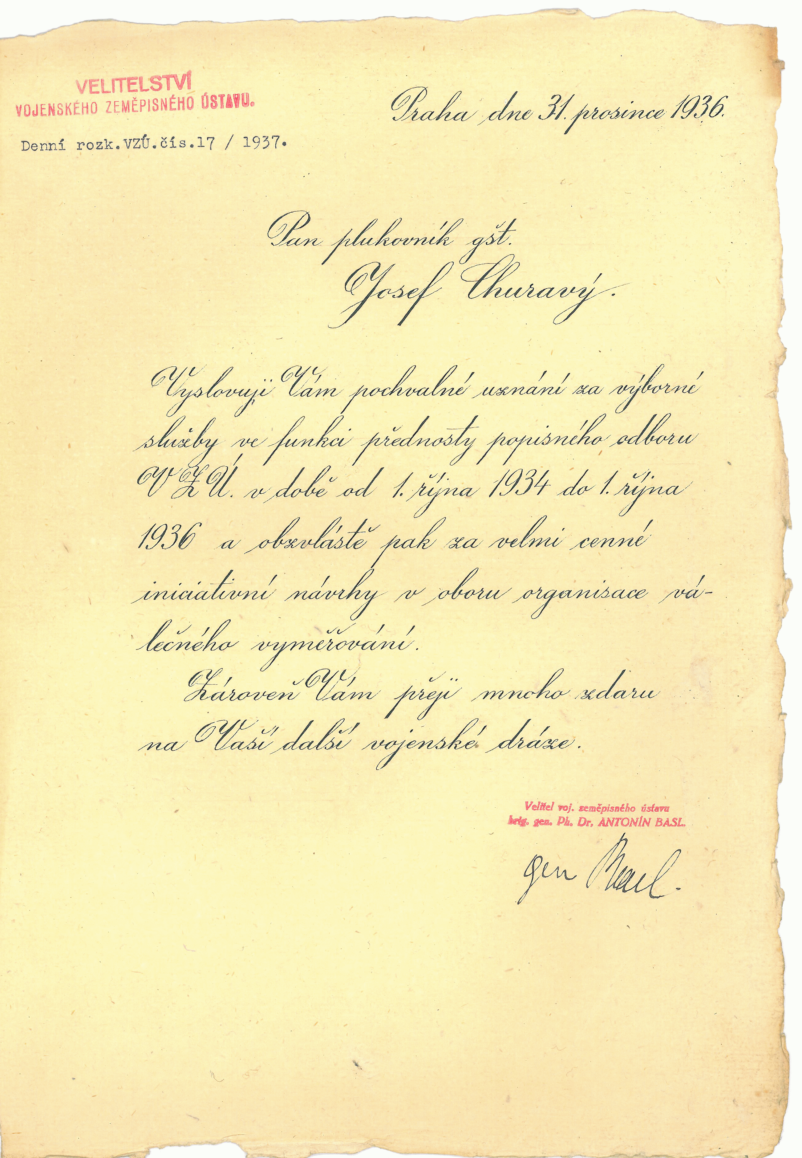 Honorable Recognition of the Commander of the Military Cartographic Institute to the Colonel of General Staff Josef Churavý: Header: Headquarters of the Military Cartographic Institute, Order of the Day No. 17/1937. Prague on 31 December 1936. To: Colonel of General Staff - Josef Churavý. Message: I am grateful to you for your excellent service as head of the descriptive department of the Military Cartographic Institute in the period from October 1, 1934 to October 1, 1936, and especially for very valuable and initiative proposals in the field of organization of the military topography. At the same time, I wish you much success in your next military career. Signed: Commander of the Military Cartographic Institute, Brigadier General Ph. Dr. Antonin BASL.